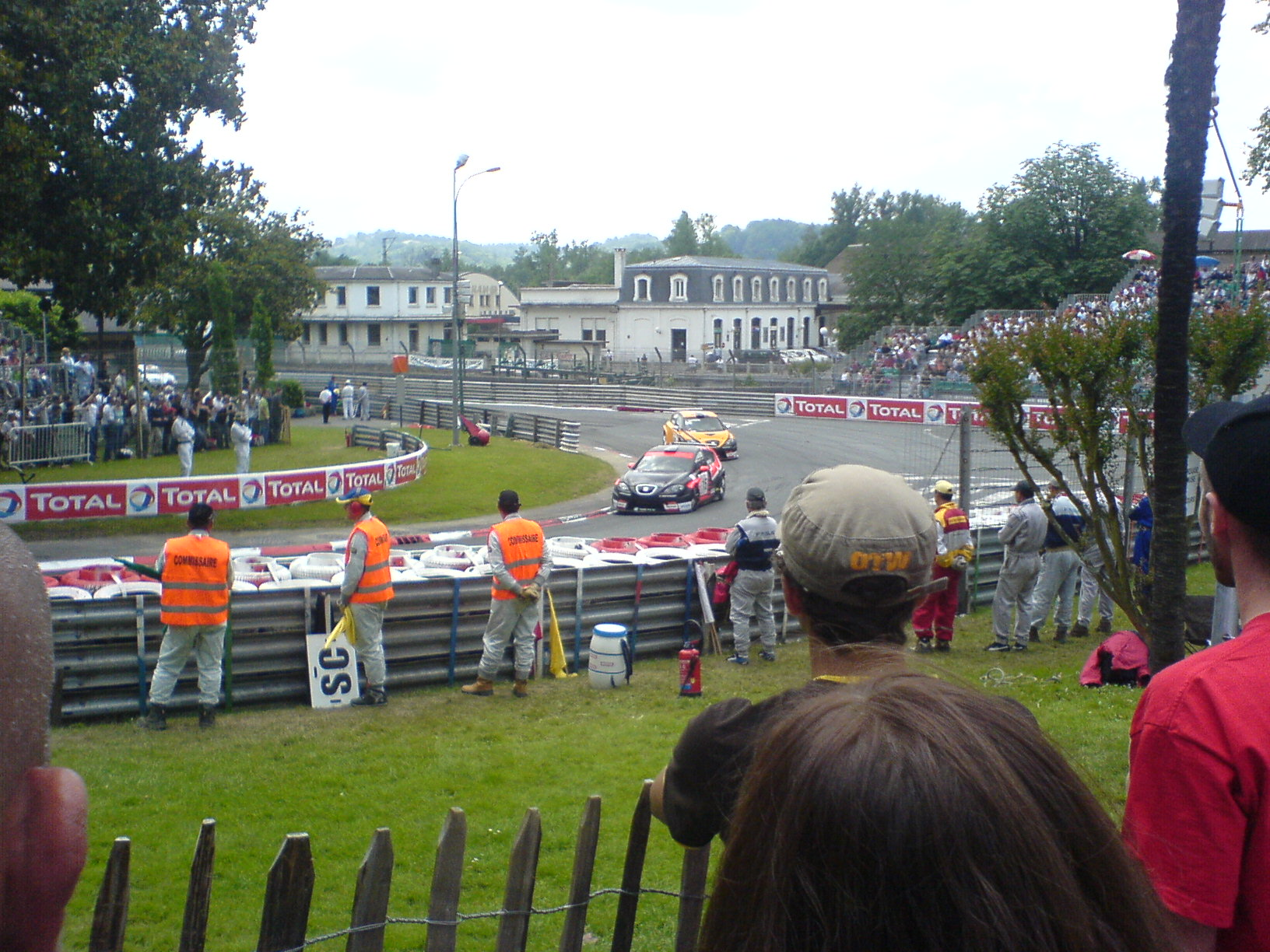 SEAT León Cup racing by the Gare de Pau (train station) during the Grand Prix de Pau, France.